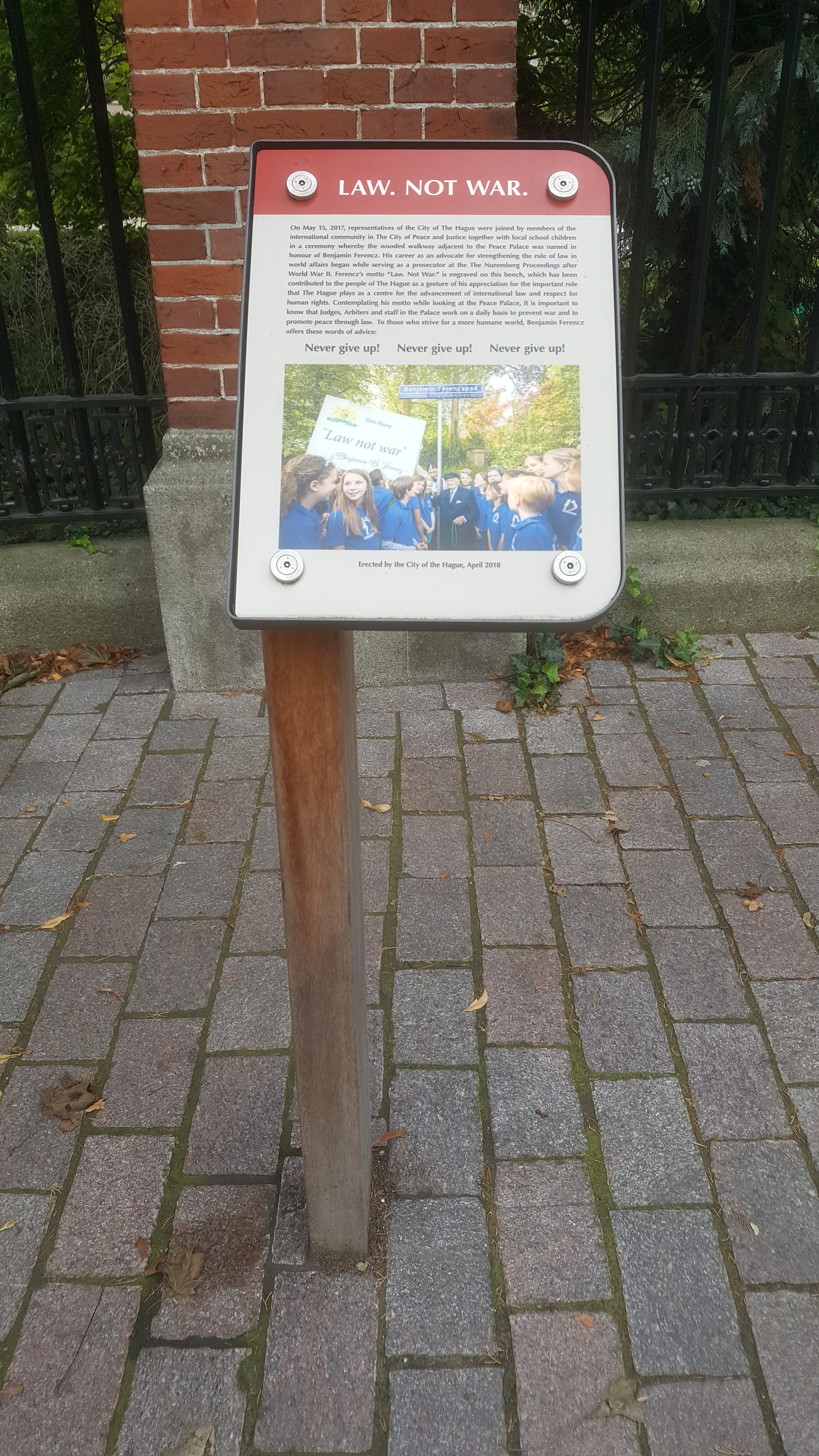 Monument/information board dedicated to Ben Ferencz's motto Law. Not War. in front of the gate of the Peace Palace, Carnegieplein 2, The Hague